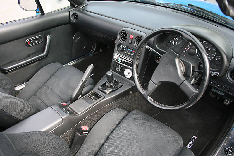 1990 Mazda MX5 Black Interior